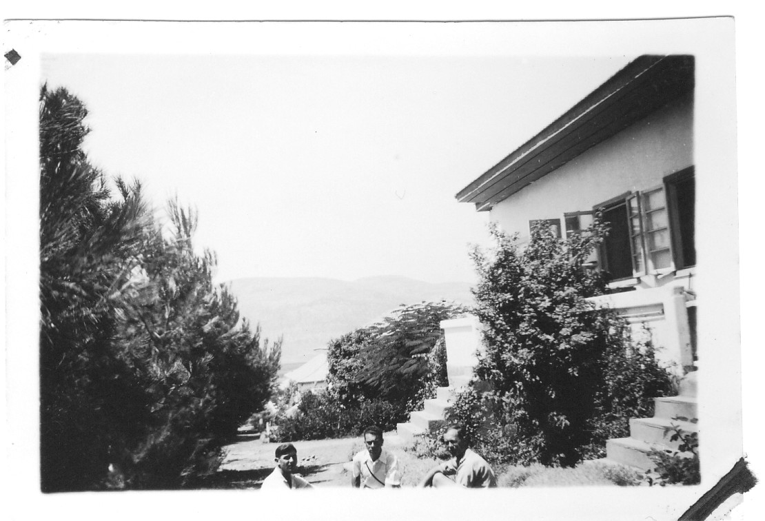 kibutz ein harod in the 30th